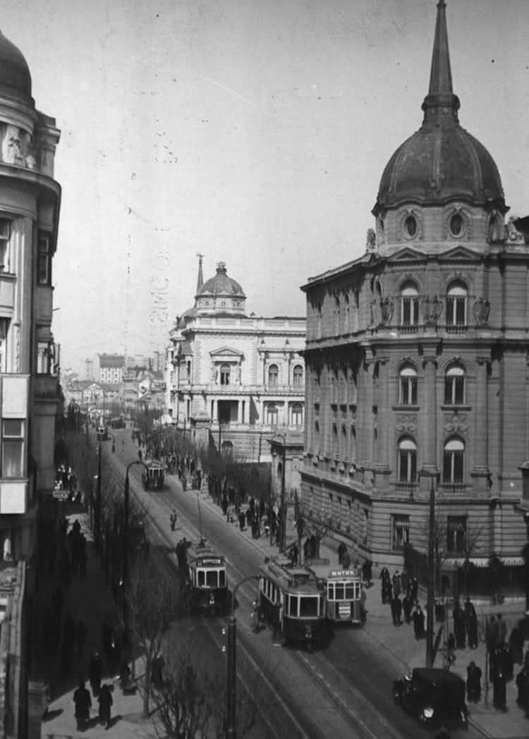 Old Belgrade Streets